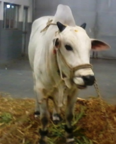 Young Bull of "Ongole" breed of Andhrapradesh State, India.